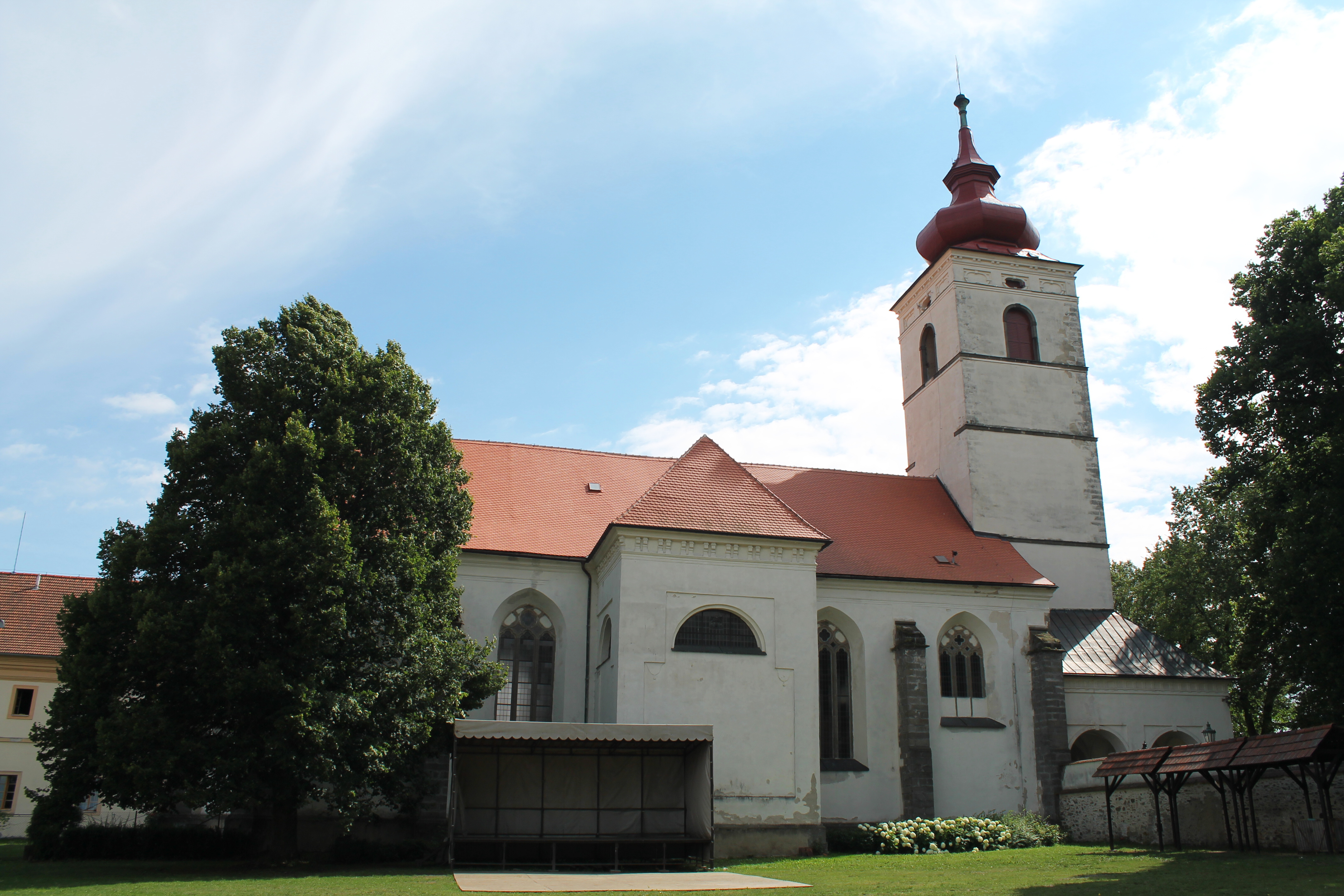 Church of Blessed Giuliana of Collalto, Brtnice, Jihlava District, Czech Republic